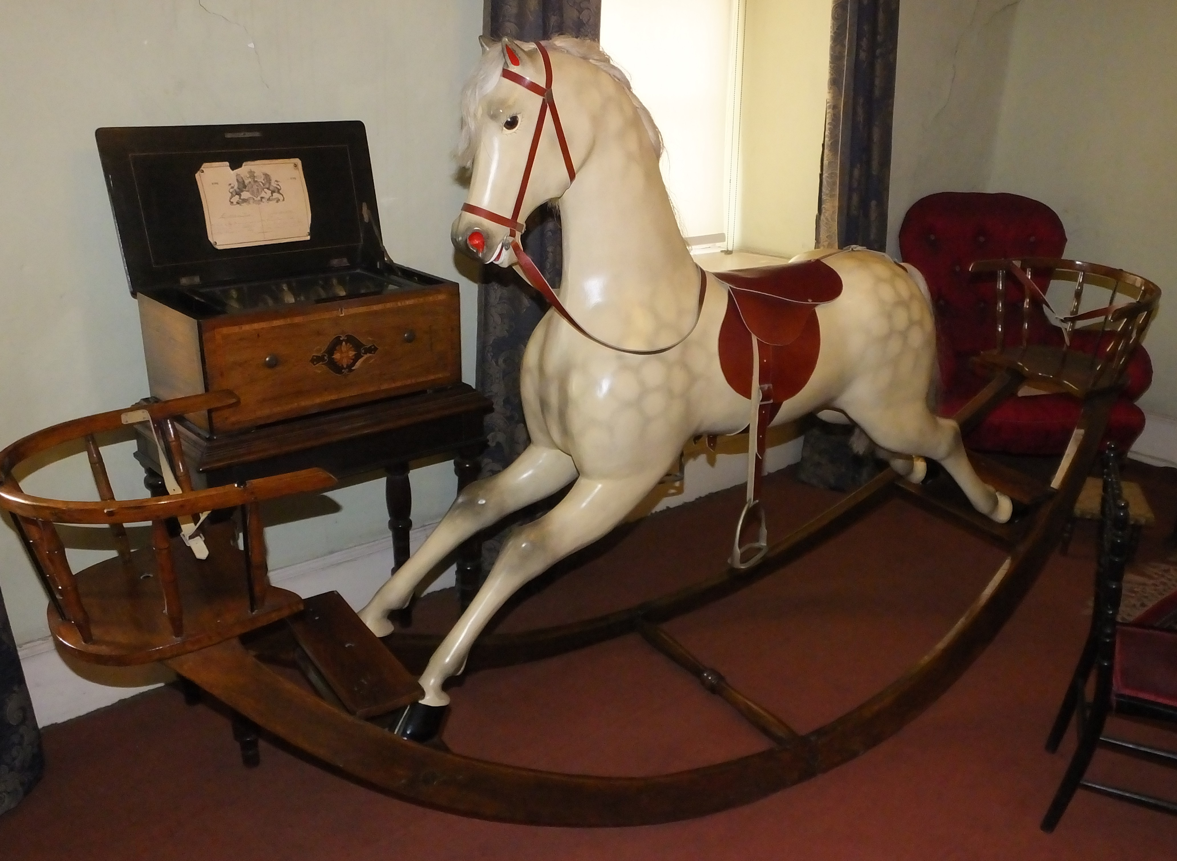 Taken during the tour and editathon at the Judges' Lodgings, Lancaster. The upper floor of the museum contains the Childhood collection. A three seater rocking horse